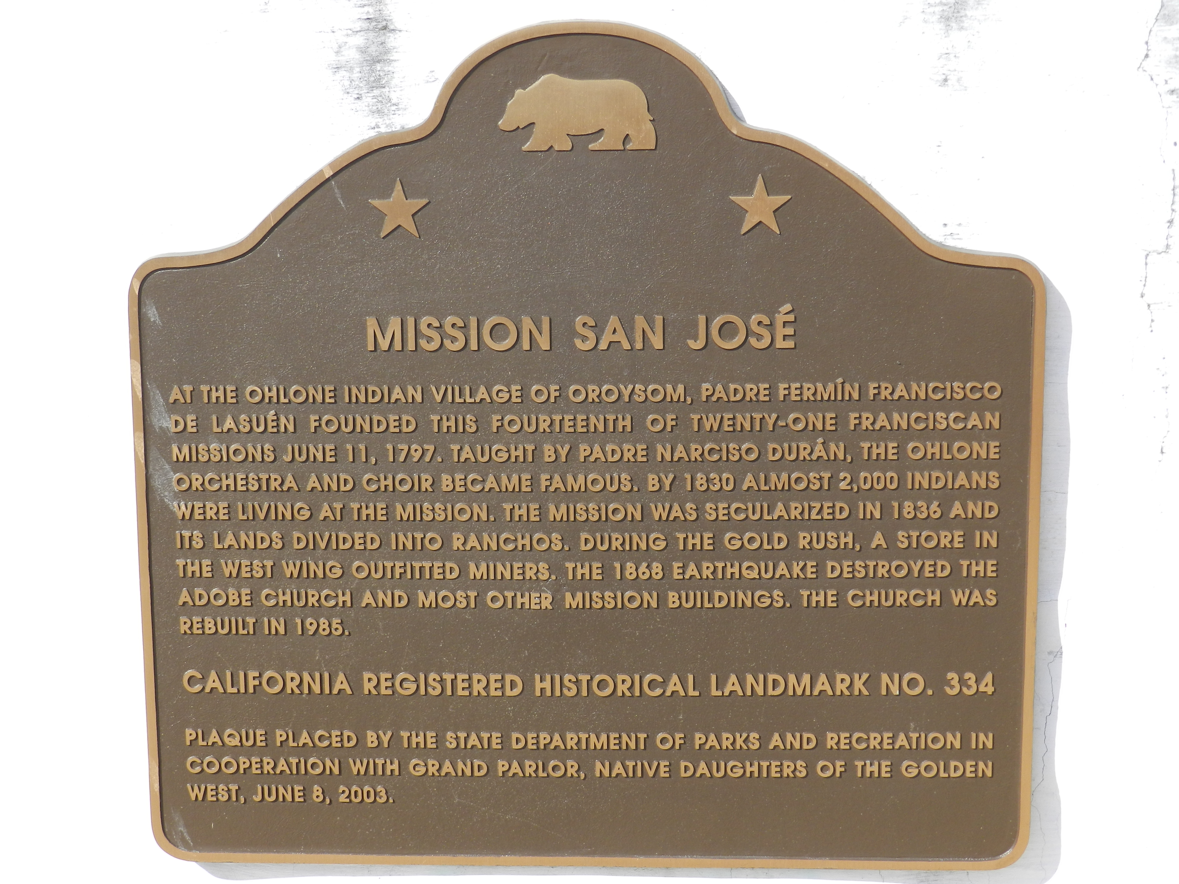 plaque, Mission San Jose, Fremont, California